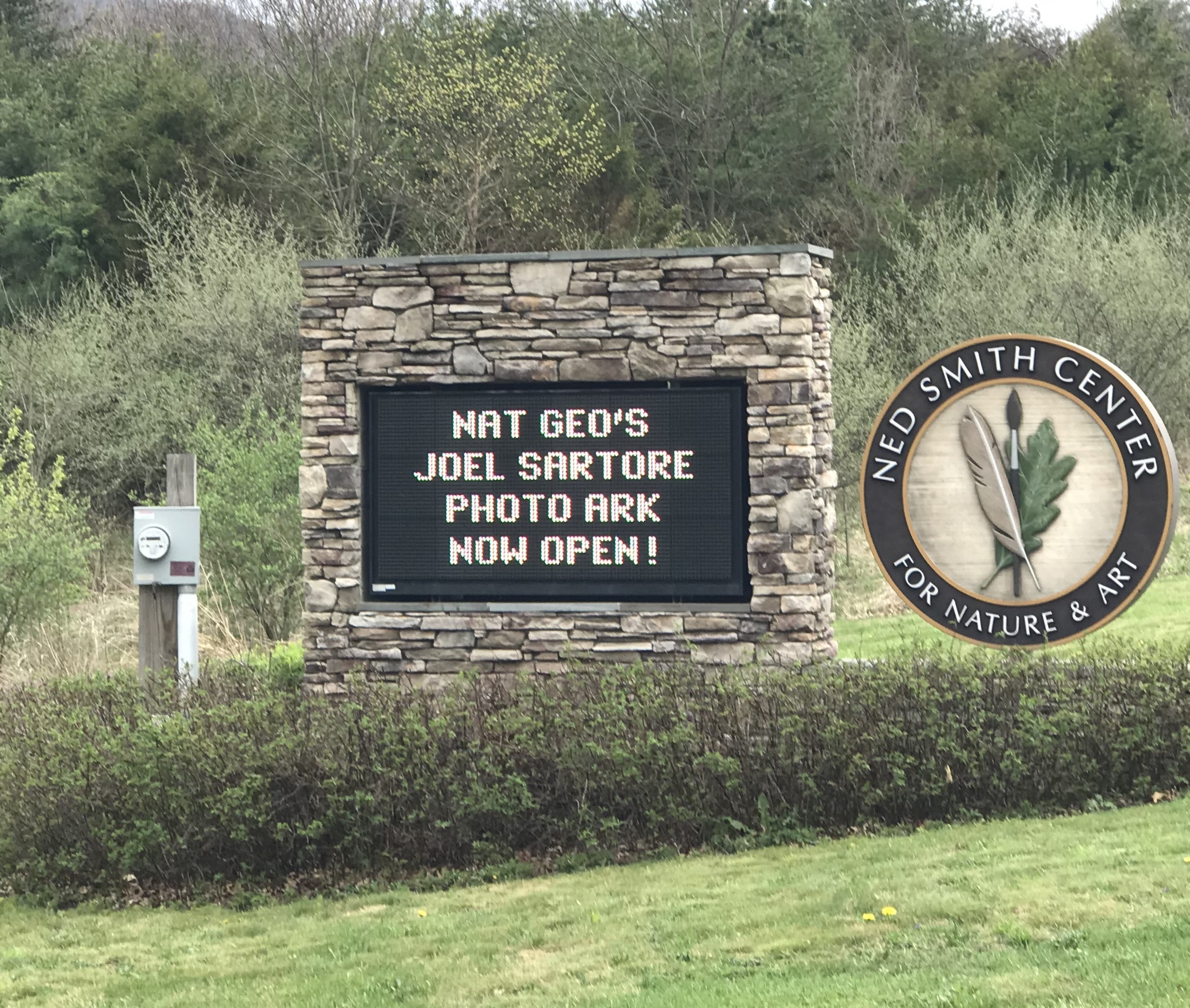 The Ned Smith Center for Nature and Art Amphitheater in Millersburg, Pennsylvania, with Photo Ark signage